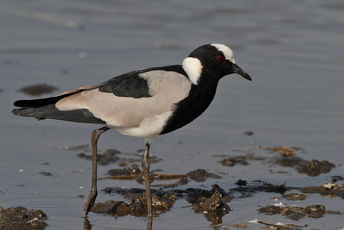 A Blacksmith Lapwing (also known as Blacksmith Plover) on the shore of Lake Nakuru, Kenya.